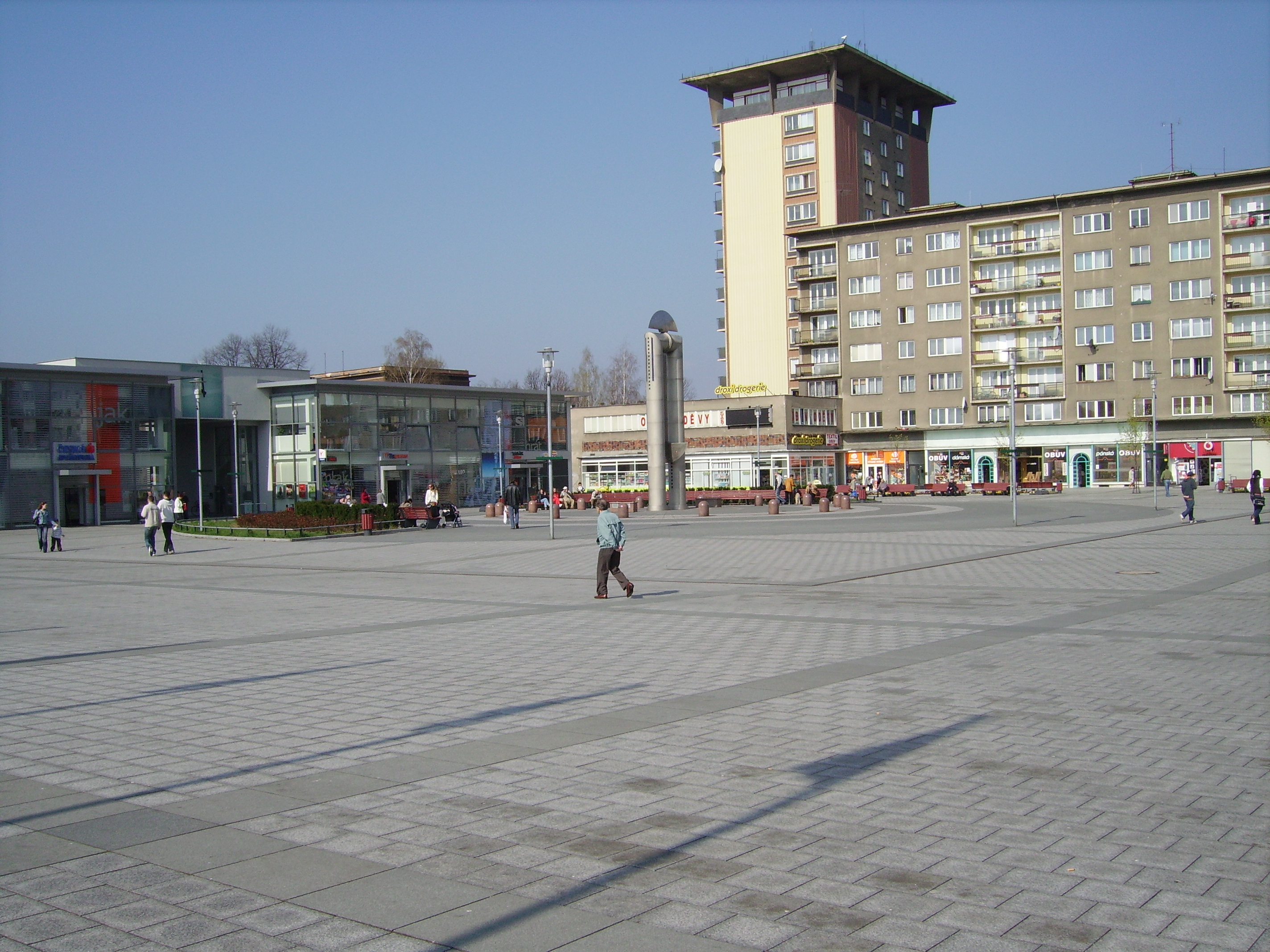 Square - Náměstí Republiky. Havířov, Karviná District, Moravian-Silesian Region, Czech Republic